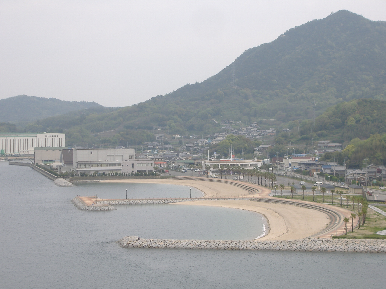 Michinoeki Hakata S.C Park in Imabari City, Ehima Prefecture, Japan, as seen from the Hakata Bridge